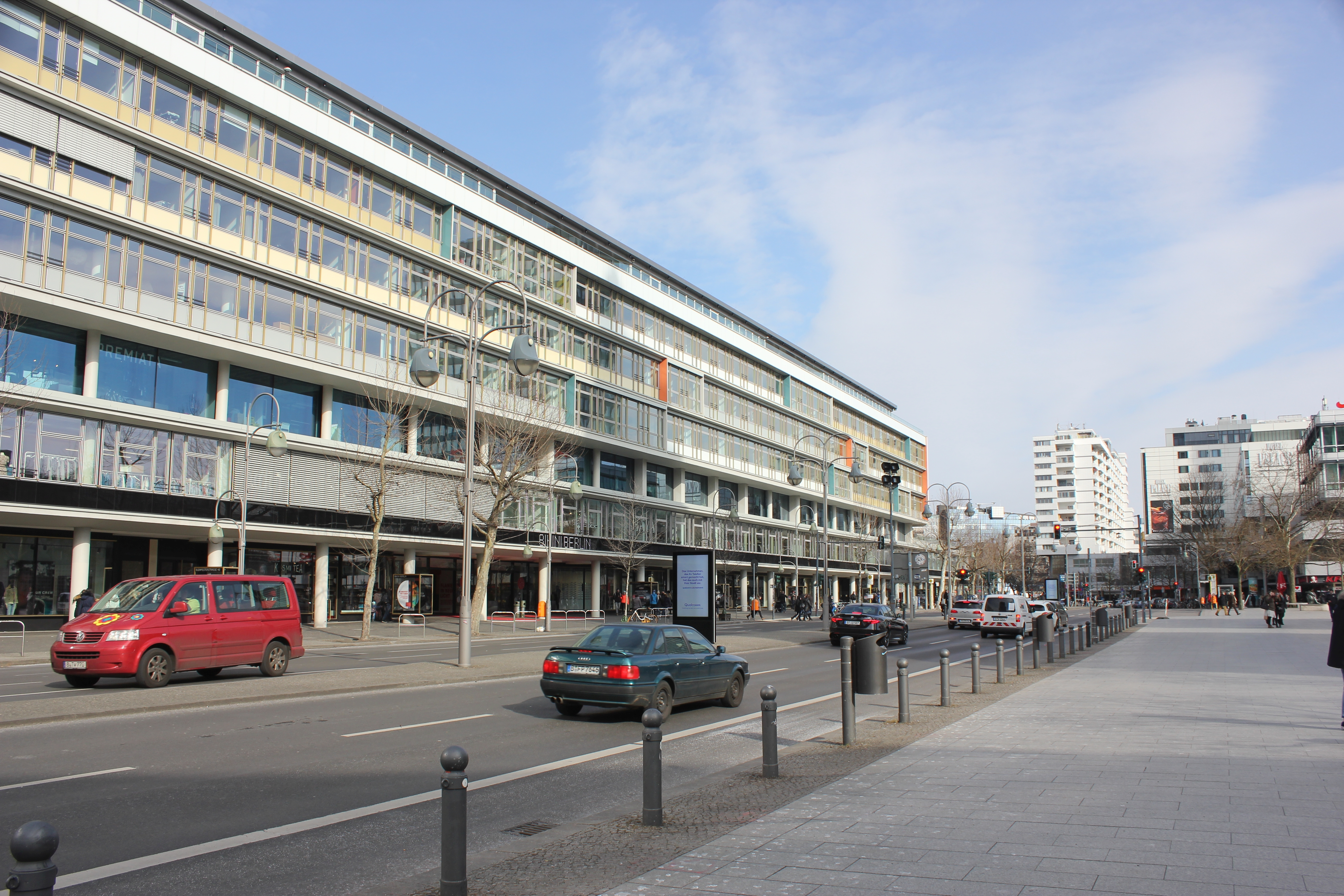 Berlin - Budapester Straße